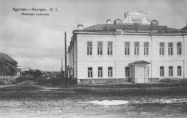 Women Gymnasium in Kurgan, Russian Empire. Pre-1917 postcard Flickr data on 2011-08-13 Tags: postcard, Russia, Russian Empire, Kurgan, Kourgan, Gymnasium License: CC BY-SA 2.0 User: paukrus Ruslan